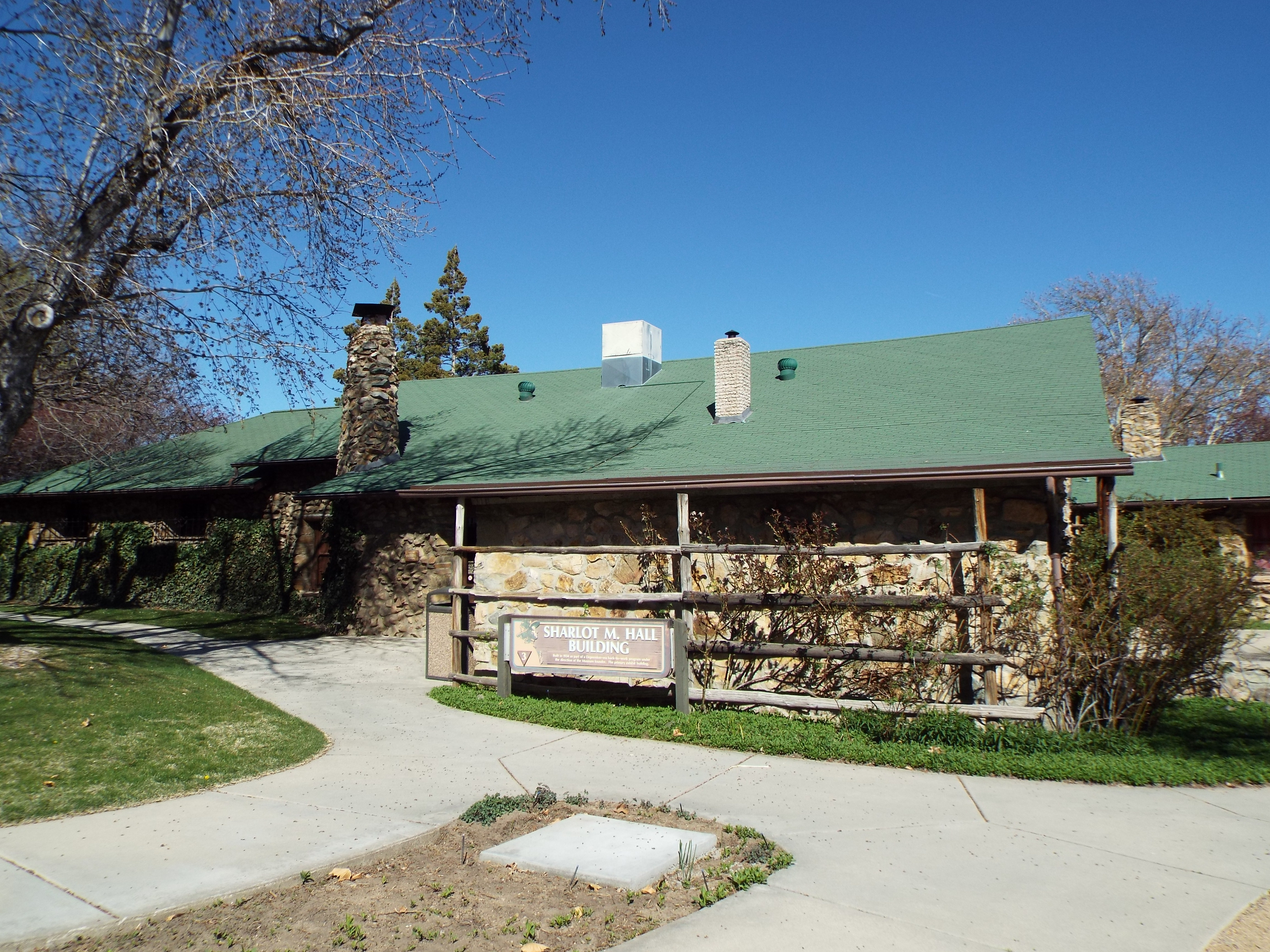 The Sharlot Hall Building, constructed in 1936 and once home to Sharlot Hall located in the grounds of the Sharlot Hall Museum in Prescott, Az.